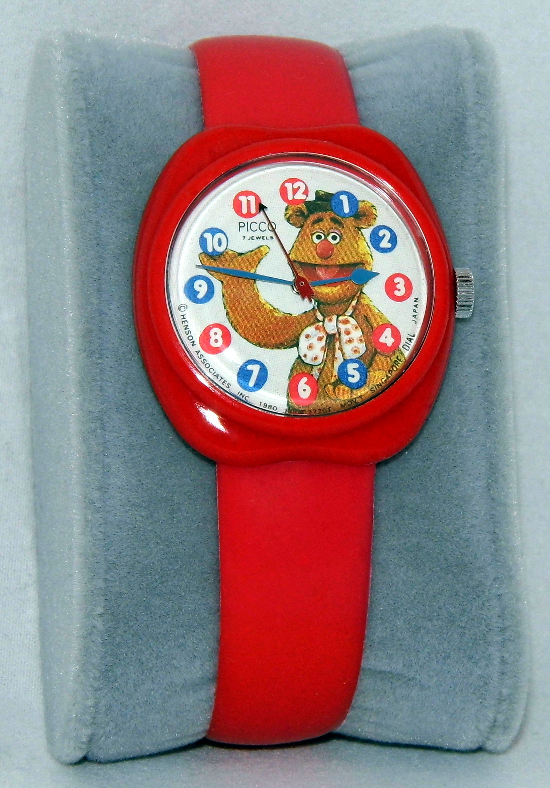 Fozzie Bear is known for his lack of innate and effective comedy skills. He often wears a brown pork pie hat and a red-and-white polka-dot necktie. His first appearance was on the Muppet Show in 1976.